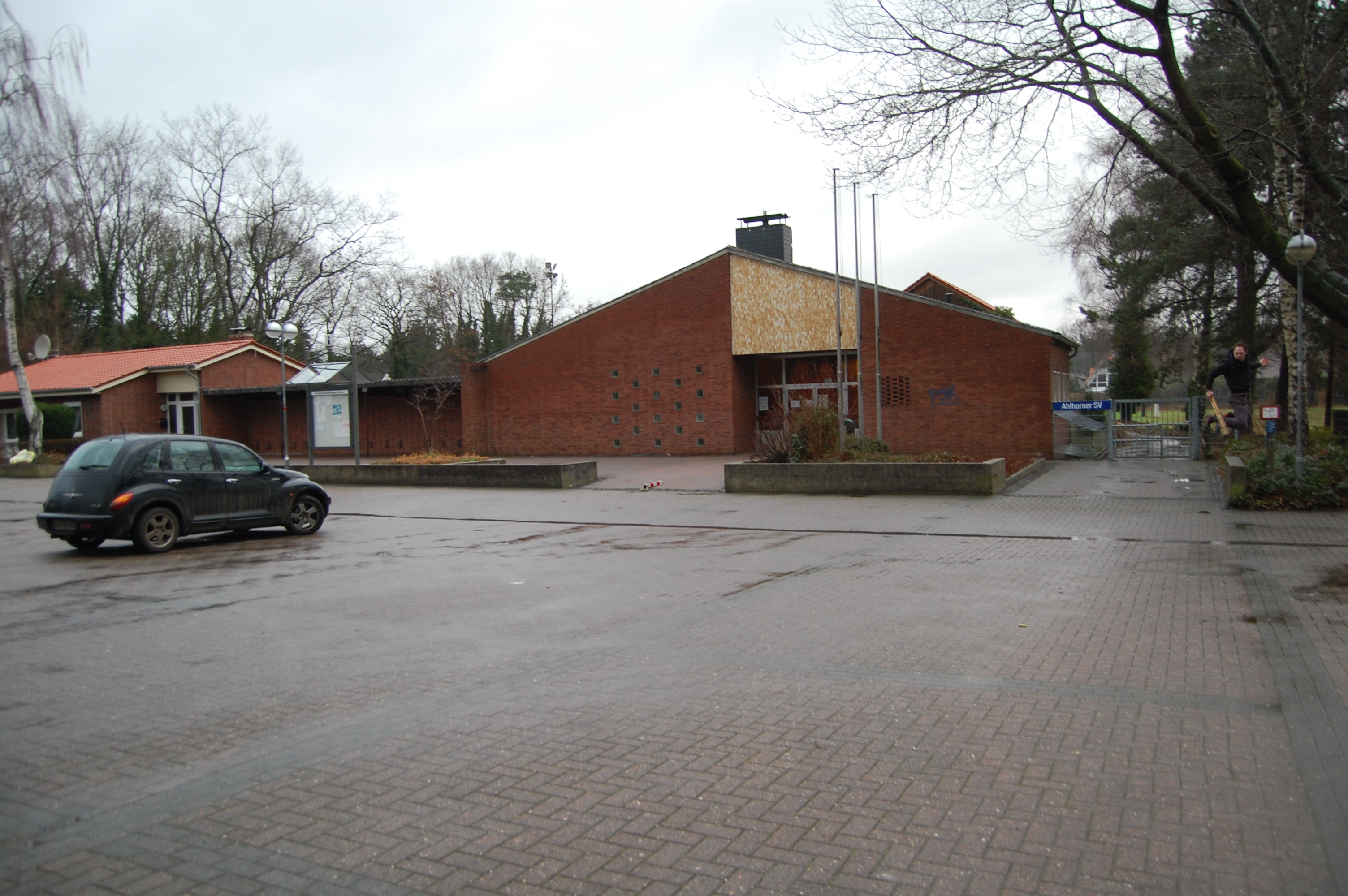 Townhall in Ahlhorn with library and media library. Sports ground of the "Ahlhorner Sportverein" can be seen at the right-hand sight of the picture.